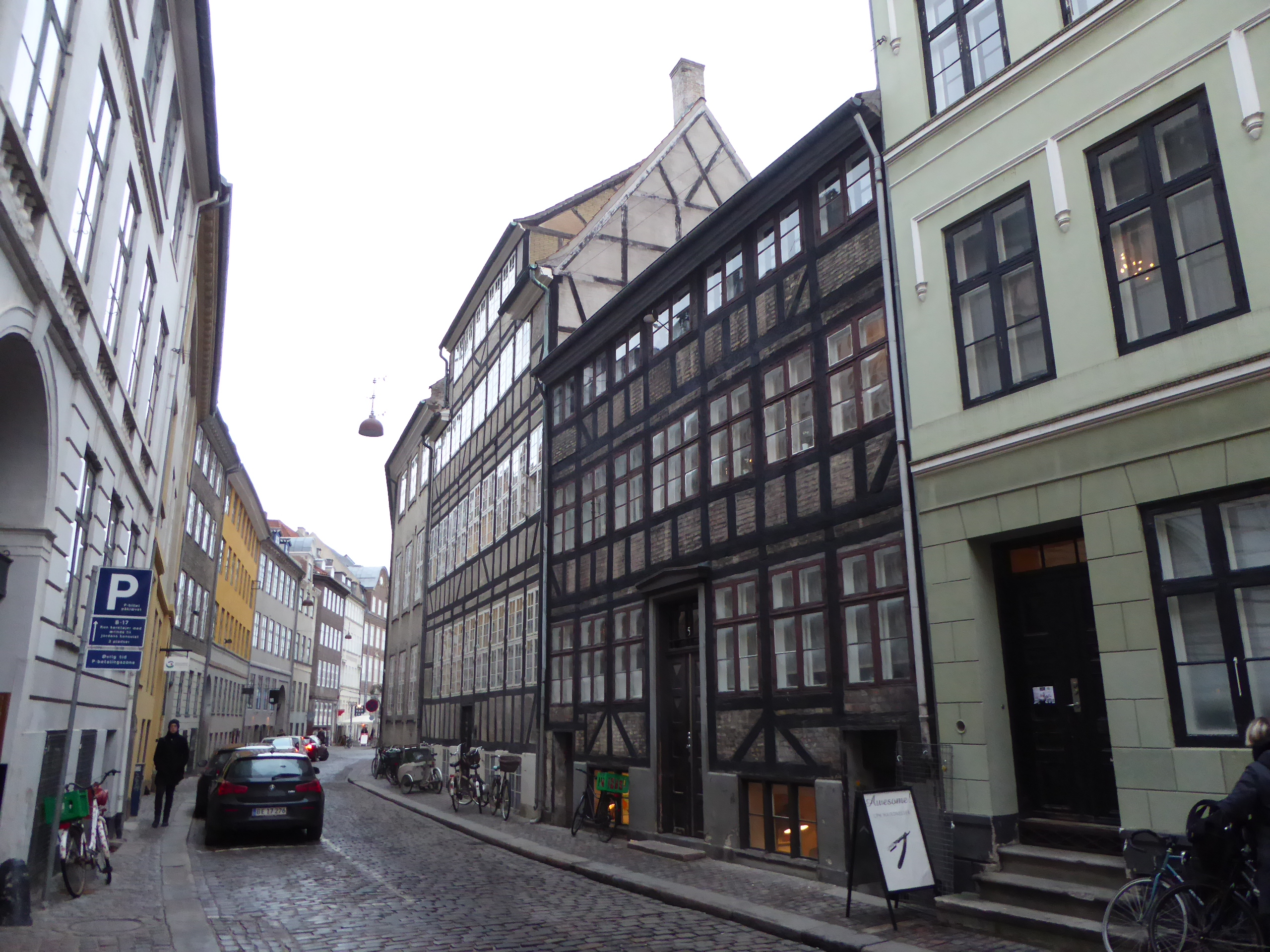 The street Snaregade in Indre By in Copenhagen.